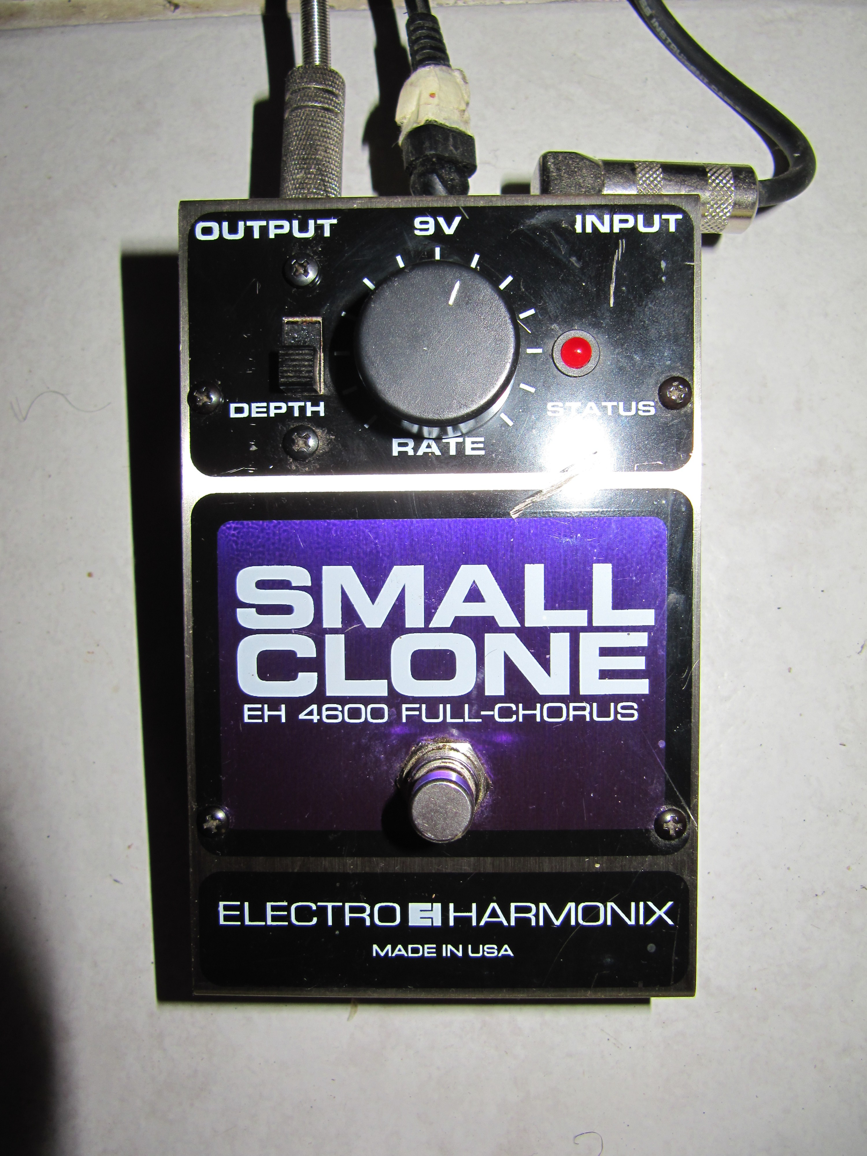 This is An Electro-Harmonix Small Clone EH-4600 full chorus guitar effect pedal. This is a chorus effect pedal for electric guitars. The picture shows the top of the pedal, which is off. The footswitch is the big metallic button on the bottom, while the big black round control is the rate control. On the left of the rate control, is the depth button, witch allows the user to chose between two sounds. On the right is the status led, witch is on, meaning that the effect is enabled (the chorus is active)